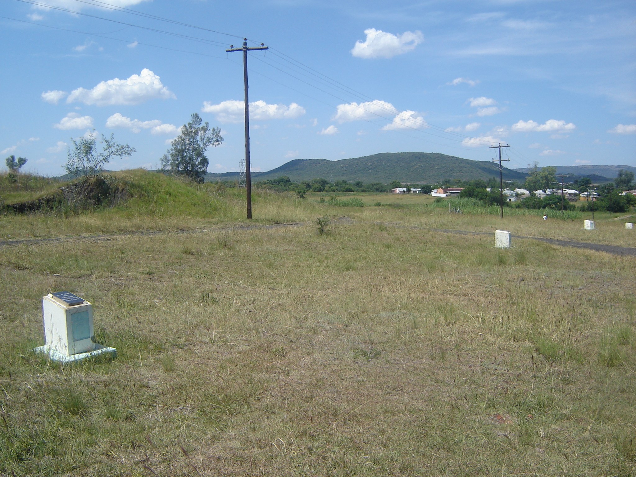 This photo depicts some of the markers that marks the location of the gun sites during the battle of Colenso with Hlangwane hill in the background. It would seem as if the terrain has been altered somewhat if compared to the photo at this South African Military History Society article.